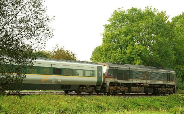 The "Enterprise" near Scarva The Belfast – Dublin “Enterprise” negotiating the curve to the south of Scarva station. The train operates on the “push-pull” system. The locomotive is pushing.